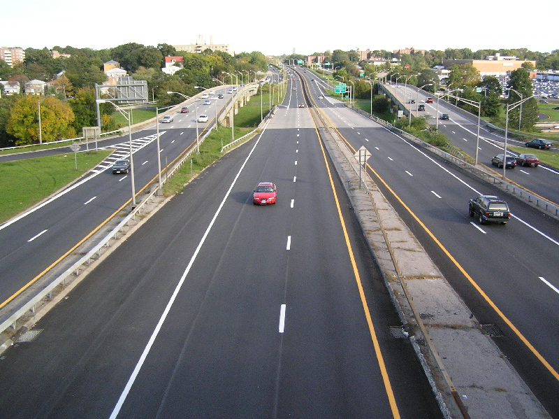 I took this photograph of the Cross County Parkway in Westchester County, New York late in the afternoon on Sunday, October 7, 2006, when traffic on the parkway was relatively light. The lanes of the parkway were resurfaced in the spring of 2006. The parkway has local and express lanes.